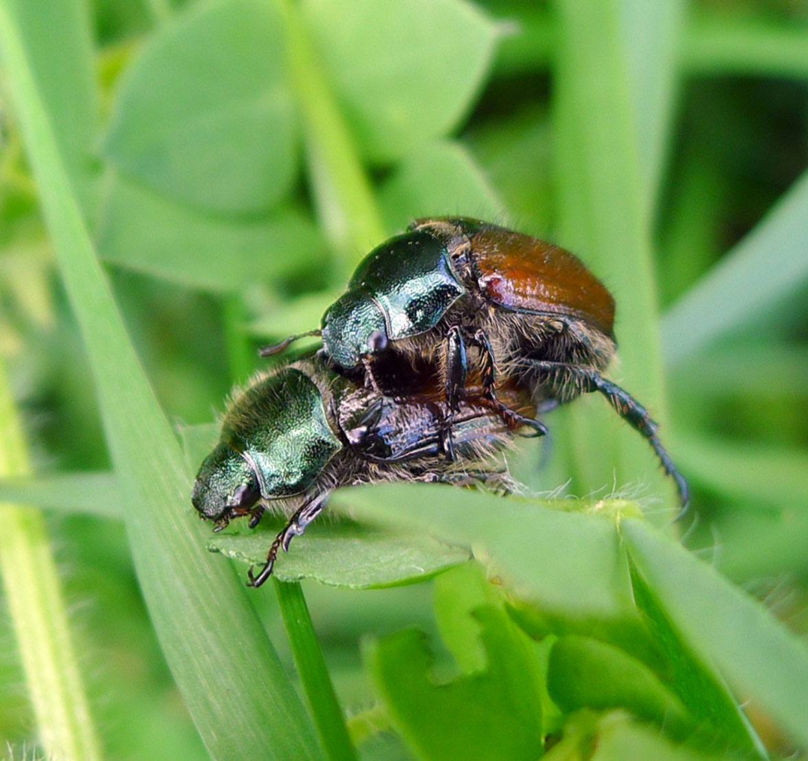 SO994254. Nr, Presbury. Glos. UK